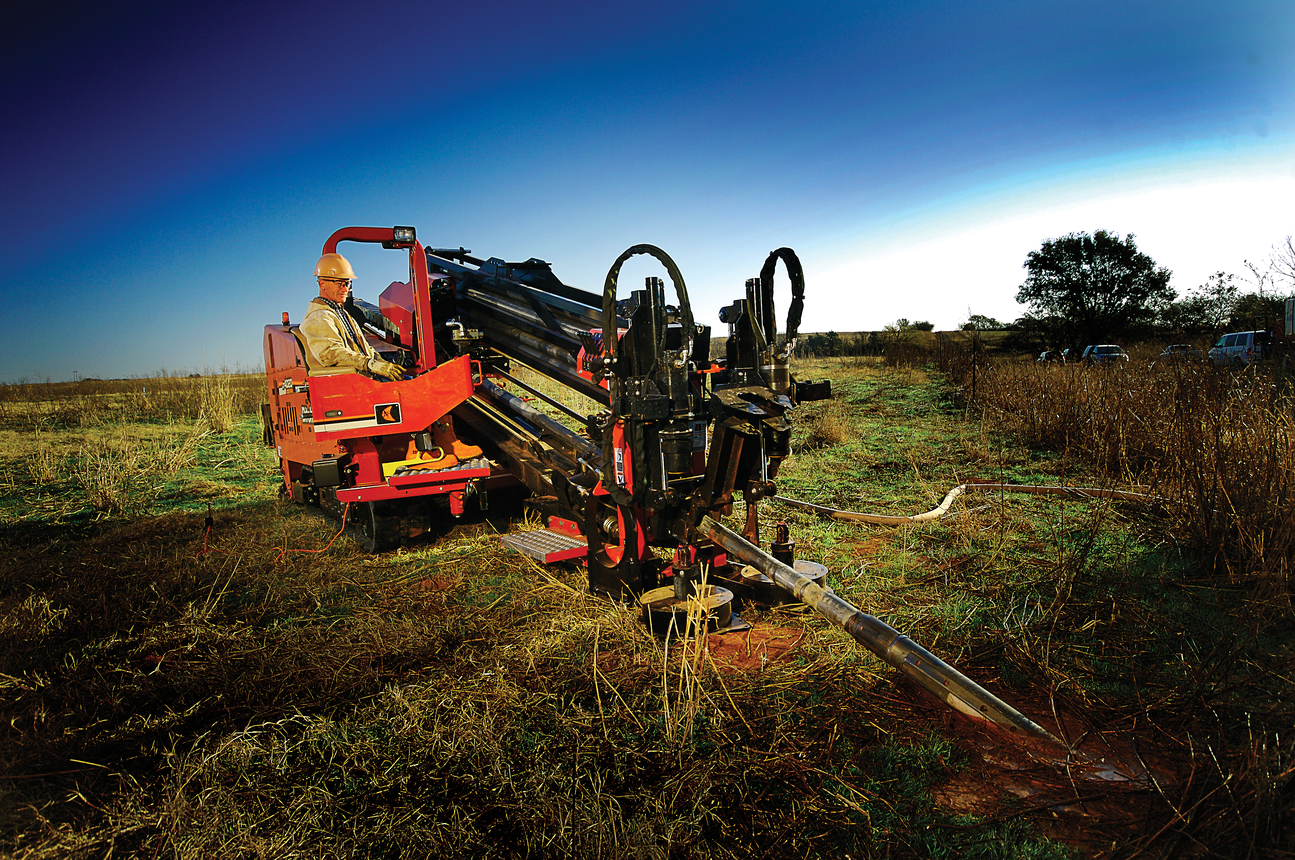 A working shot of the Ditch Witch JT4020 Mach 1 horizontal directional drill.